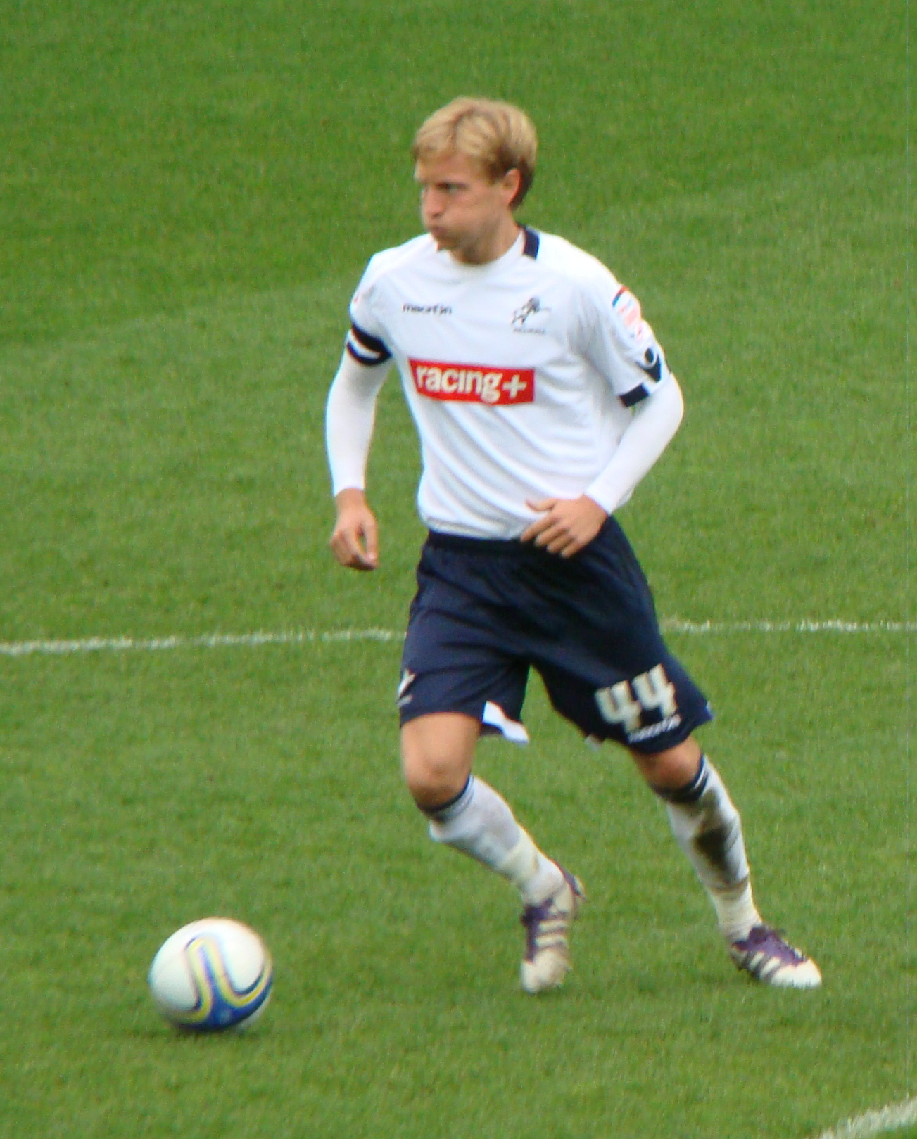 31/03/12 Cardiff v Millwall, Championship, Cardiff City Stadium, Cardiff, Wales